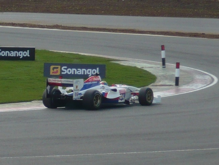 The Olympique Lyonnais Superleague Formula car. Photo taken by me at Silverstone Circuit during its 2010 SF round.